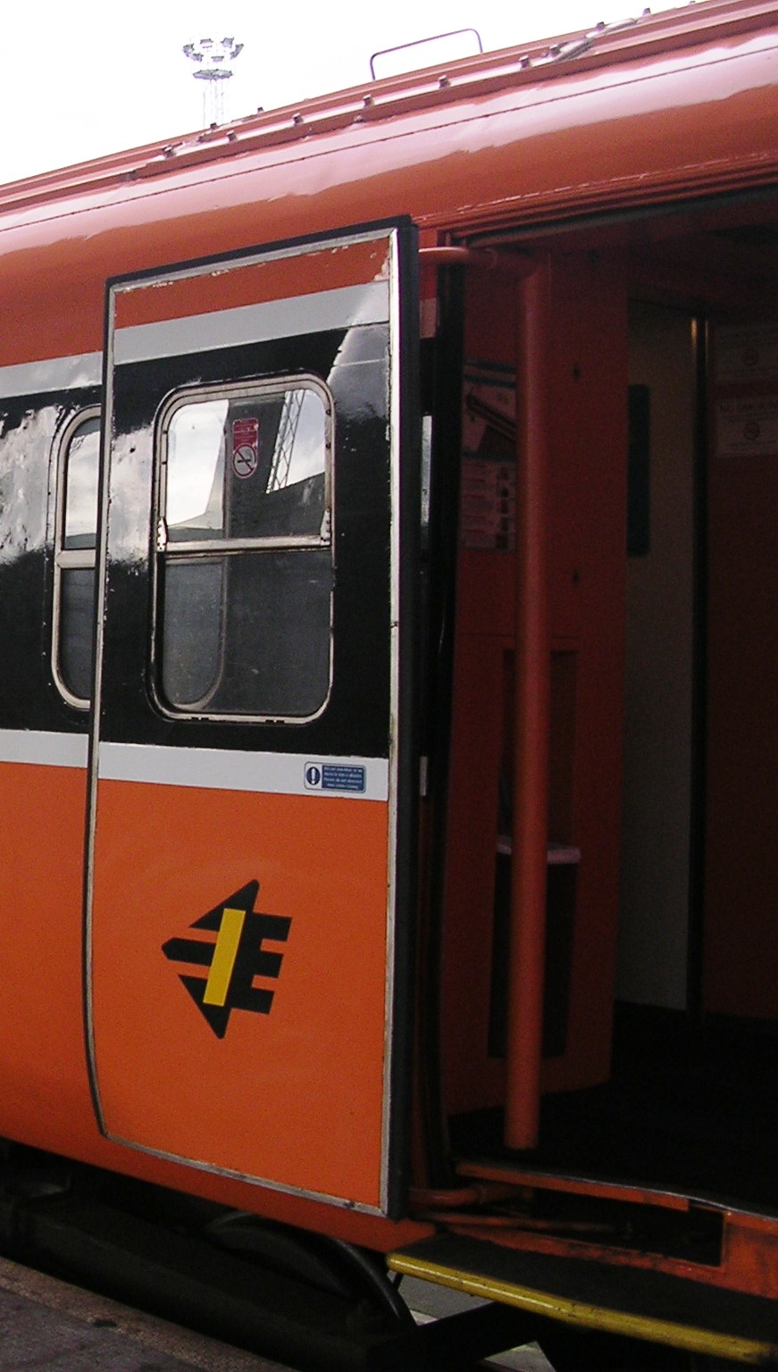 IÉ Mk 3 coach automatic door, photo taken by myself (Dawgz) at Dublin Heuston railway station, Ireland